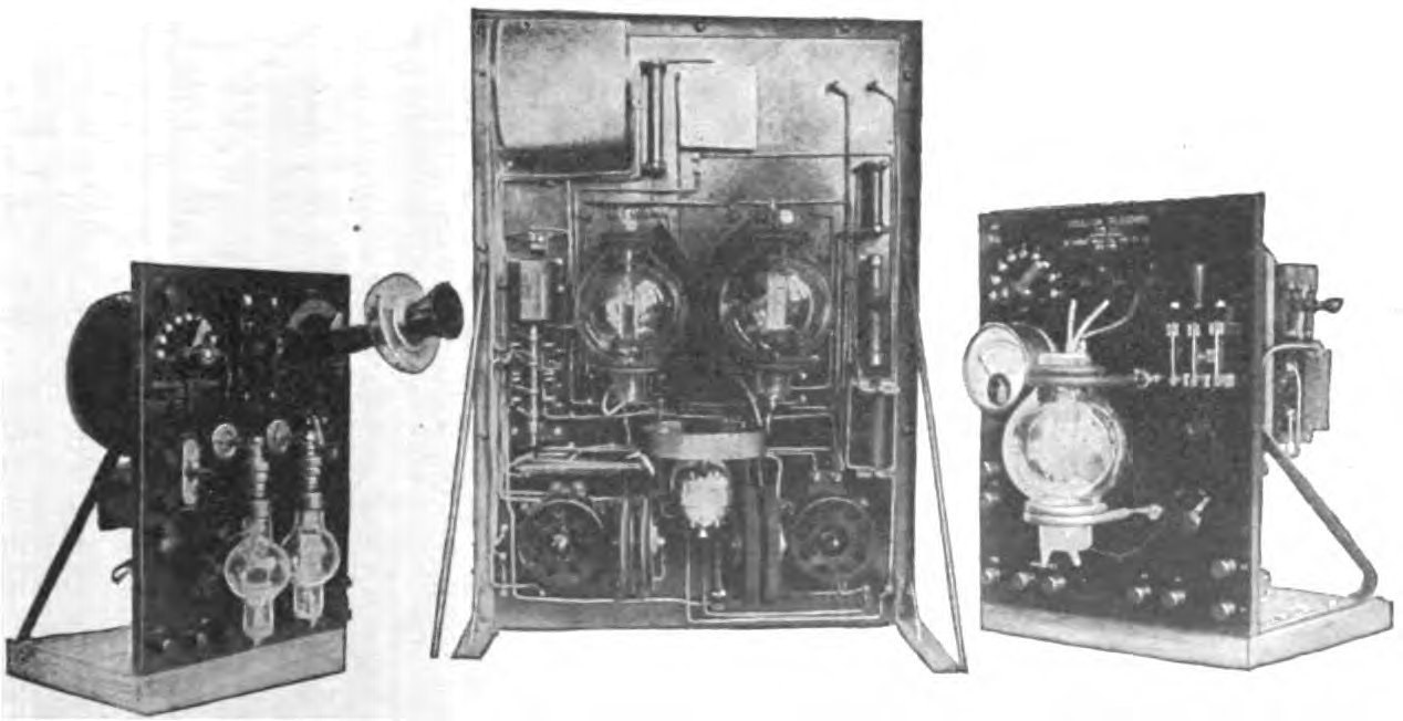 Some of the first AM vacuum tube radio transmitters using the first amplifying vacuum tube, the triode or Audion, built around 1916 by the inventor of the Audion, Lee De Forest. Before the Audion, spark gap transmitters dominated radio, which couldn't transmit sound but instead transmitted information by wireless telegraphy, spelling out text messages in Morse code. The Audion, invented in 1906, was the first simple device which could produce continuous waves which could be amplitude modulated to carry sound. The amplifying and oscillation ability of the Audion was not recognized until 1913, so these are some of the earliest AM transmitters. De Forest used the trade name "Oscillion" for the larger tubes like these used for transmitters. The Audion tubes are visible mounted on the front of the units (in the center unit they are inside) so that the operator can see if the filament is glowing and adjust the filament current by brightness. Audions were always mounted upside down, with the delicate wire filament loop inside the tube hanging down, so when it got hot it wouldn't sag and touch the grid. The lefthand set is equipped with the standard telephone style carbon microphone which was used in those days. The multiposition switches visible on the front panels adjusted the plate voltage. Caption: "Recent wireless telephone apparatus developed by Dr. Lee De Forest, employing the Oscillion or oscillating-valve type of generator" Alterations to image: Partially removed slight gray age discoloration tint along left side of photo with Gimp.